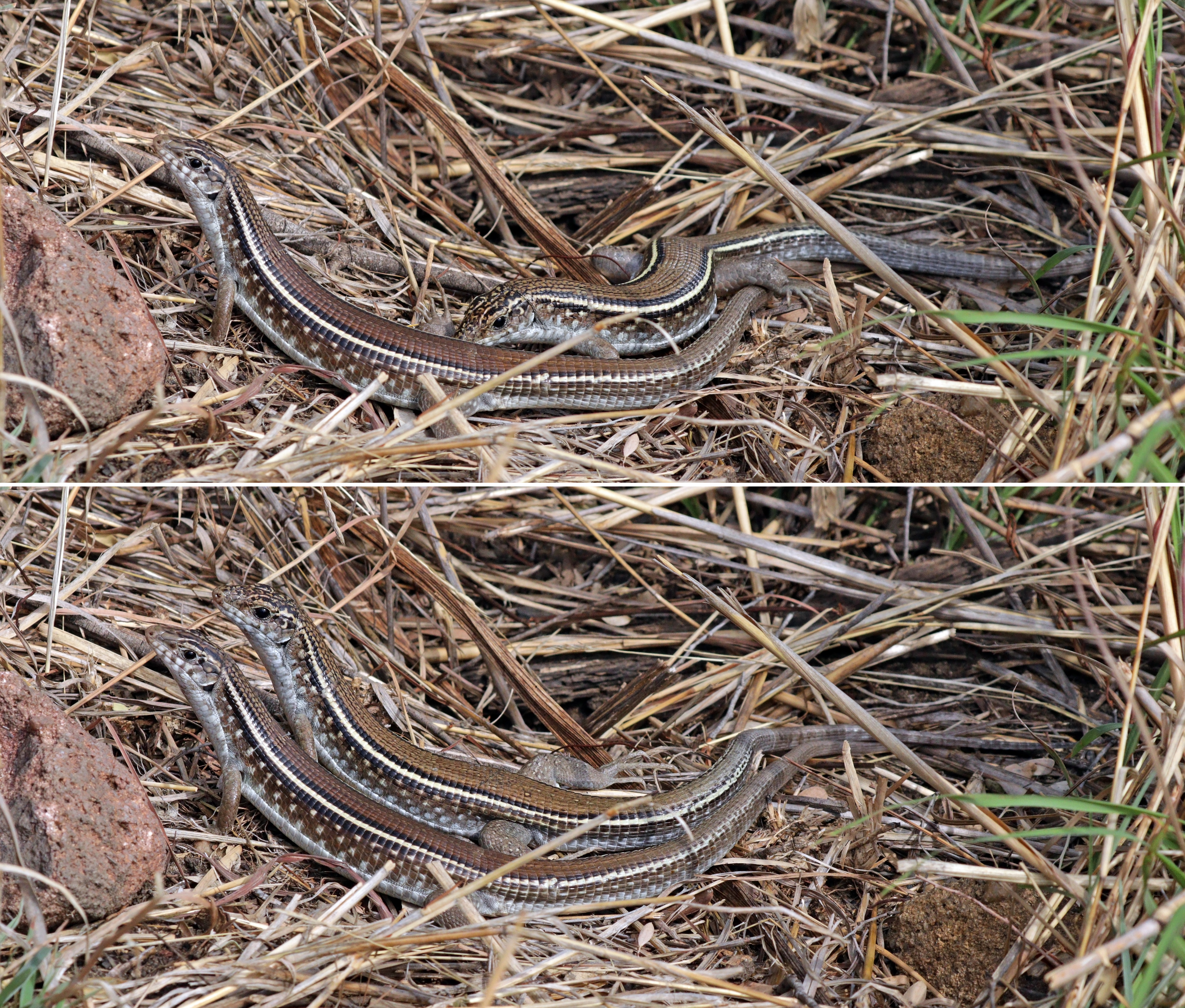 Ornate plated lizard (Zonosaurus ornatus) female (left) and male (right), Isalo National Park, Madagascar, Madagascar. Composite of mating ritual.